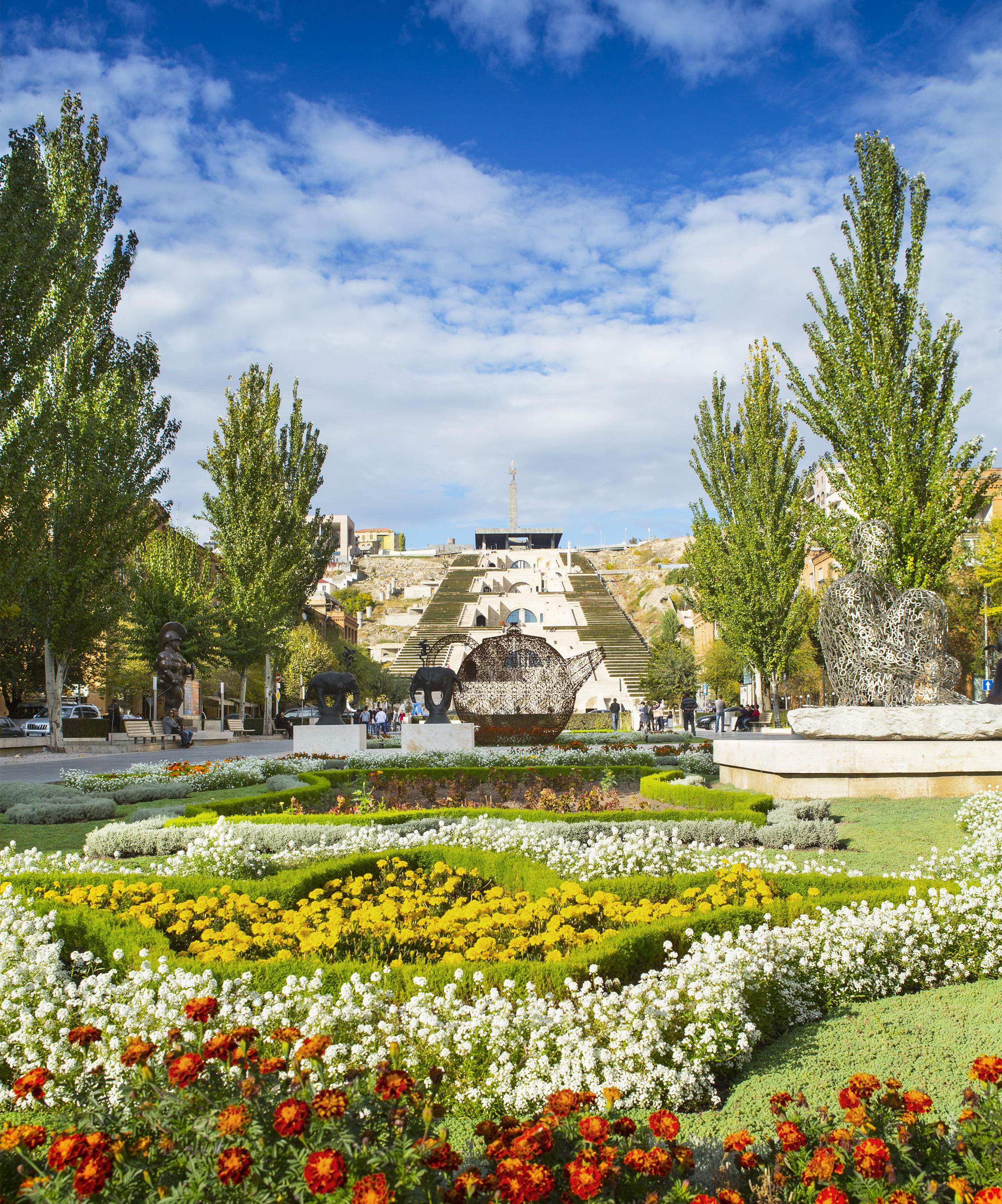 Cafejian Center for the Arts (CCA)